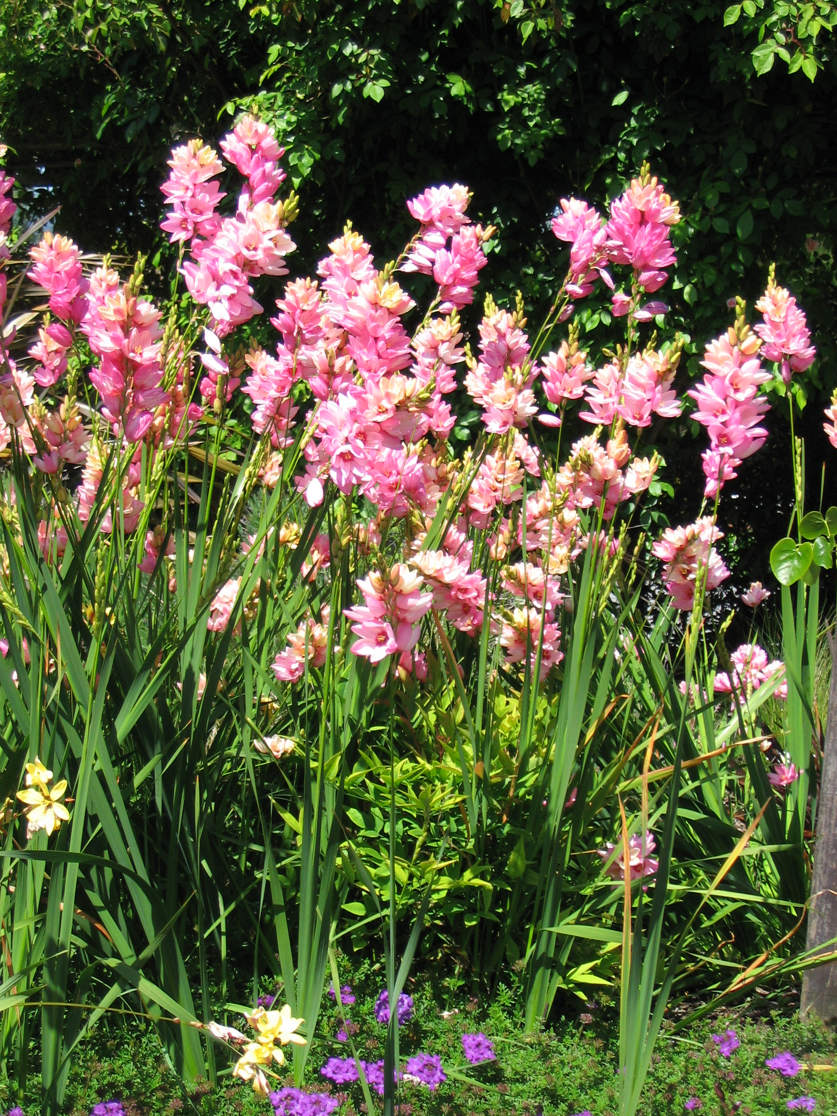 Image of the sp.Ixia "African Corn Lilies", in California